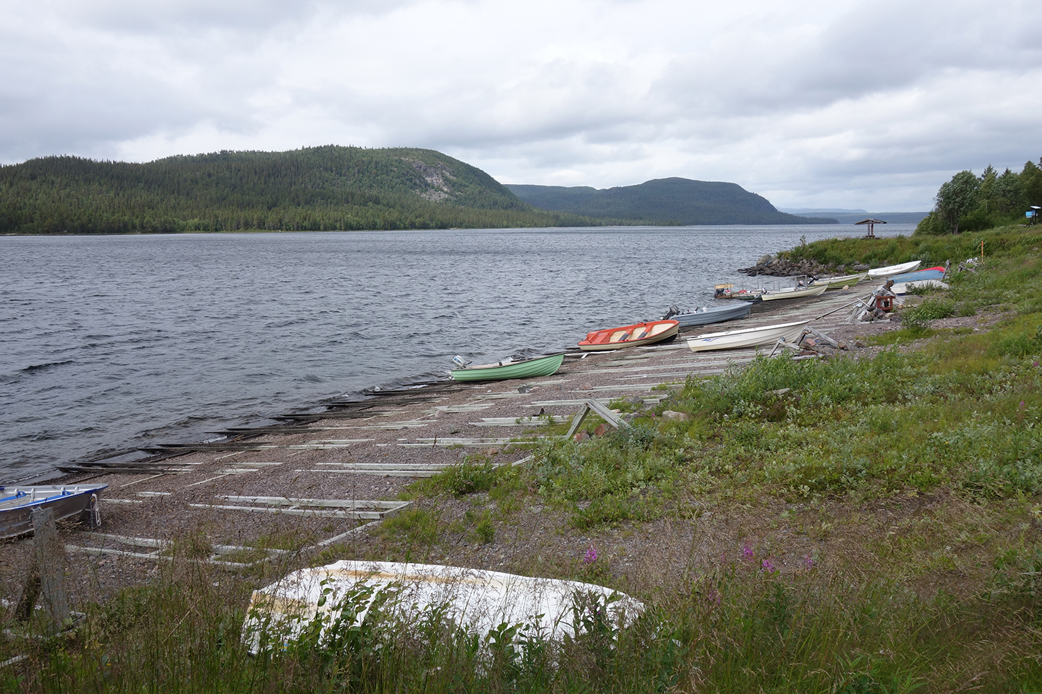 Boat harbour by Lake Laisan in Laisvall, Arjeplog Municipality.